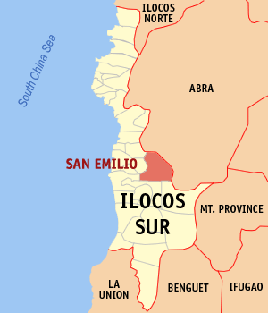 Map of Ilocos Sur showing the location of San Emilio